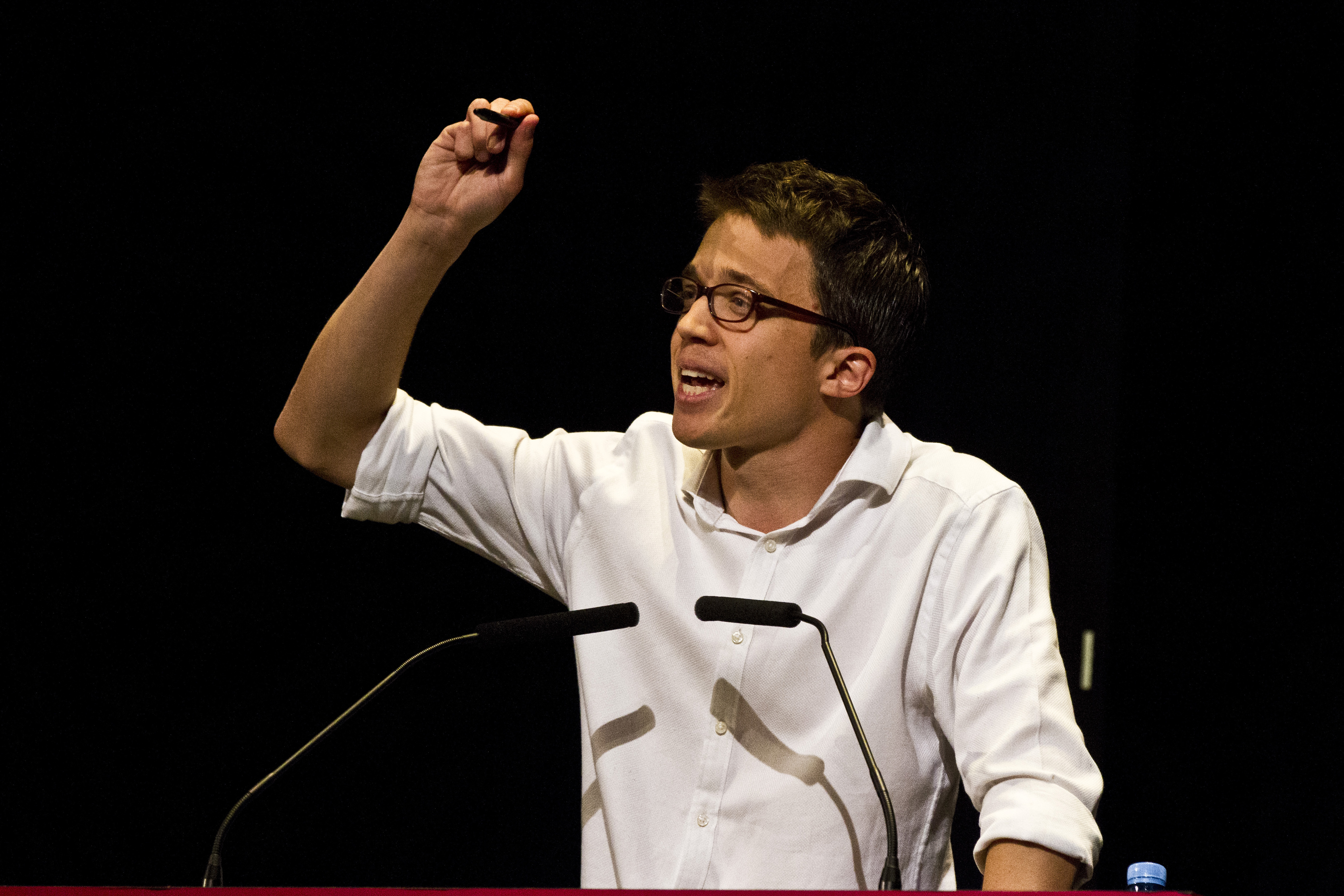 Íñigo Errejón Foro Internacional por la Emancipación y la Igualdad en Argentina en 2015